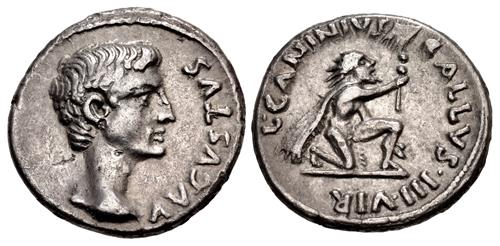 Augustus. 27 BC-AD 14. AR Denarius (17mm, 3.34 g, 8h). Rome mint; L. Caninius Gallus, moneyer. Struck 12 BC. Bare head right.